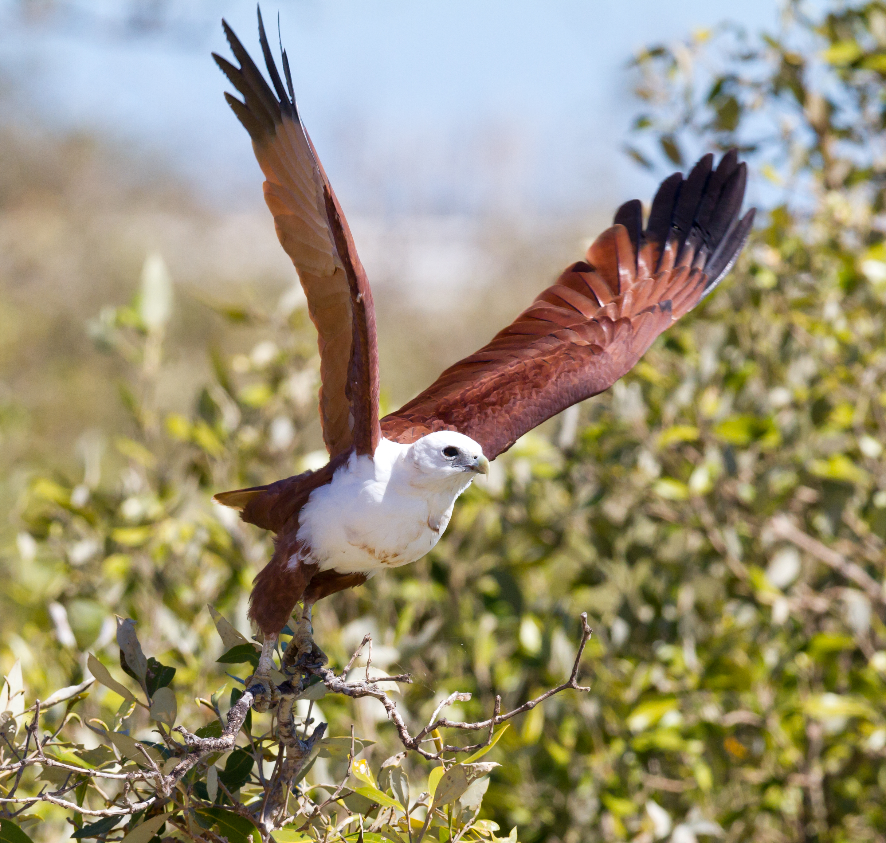 Went to Withnel Bay this morning, three Brahminy Kites around - very civilised as well